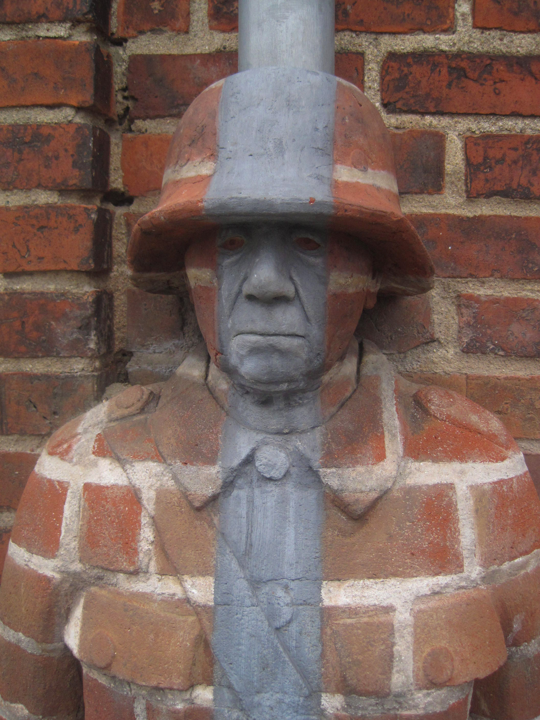 Statue outside Hasse och Tage-museet in Tomelilla portraing Folke Lindh ("Spuling"; 1921-1998) in his role as a camouflaged German soldier in the film The Adventures of Picasso.